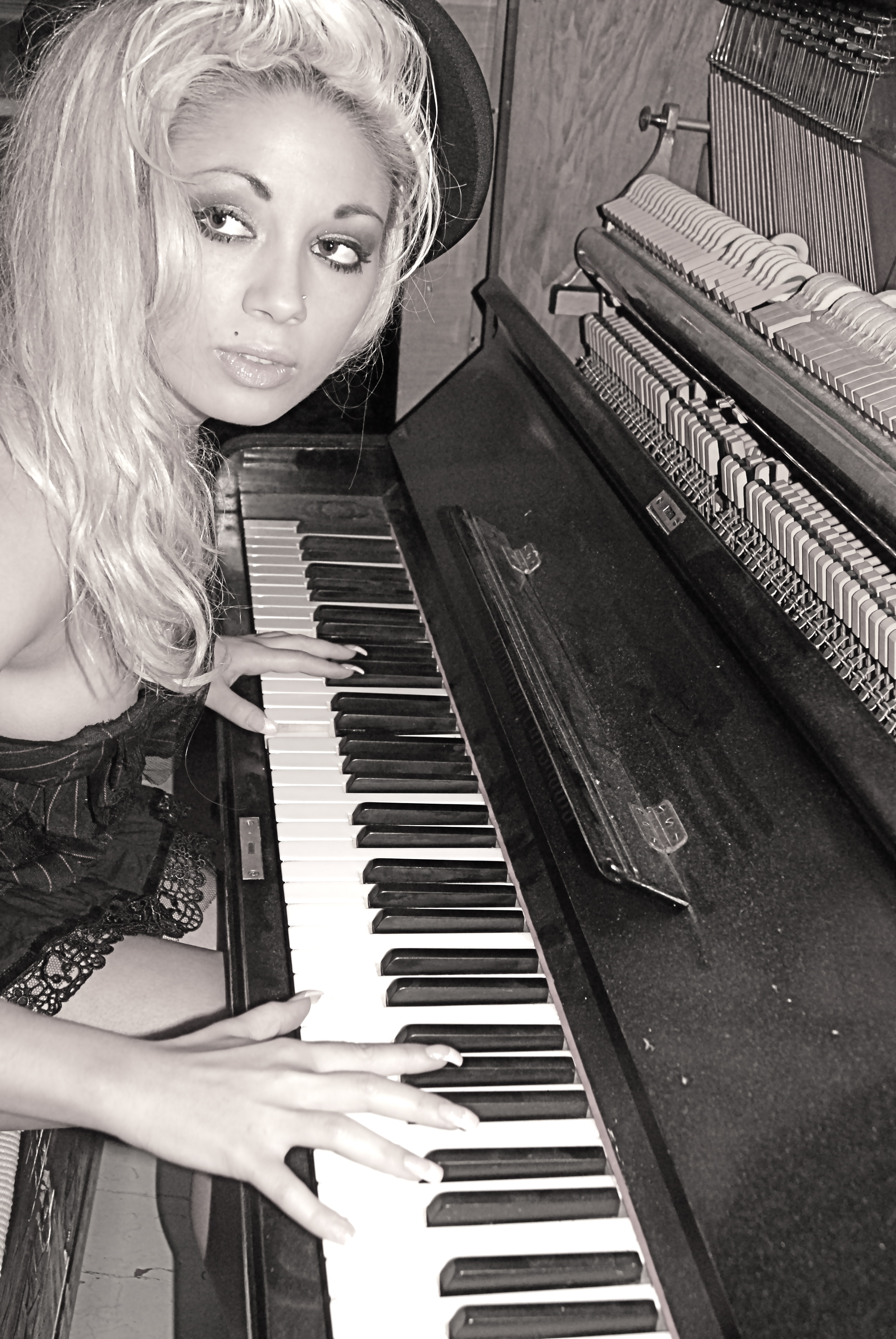 Picture of Marika Lejon by the piano.